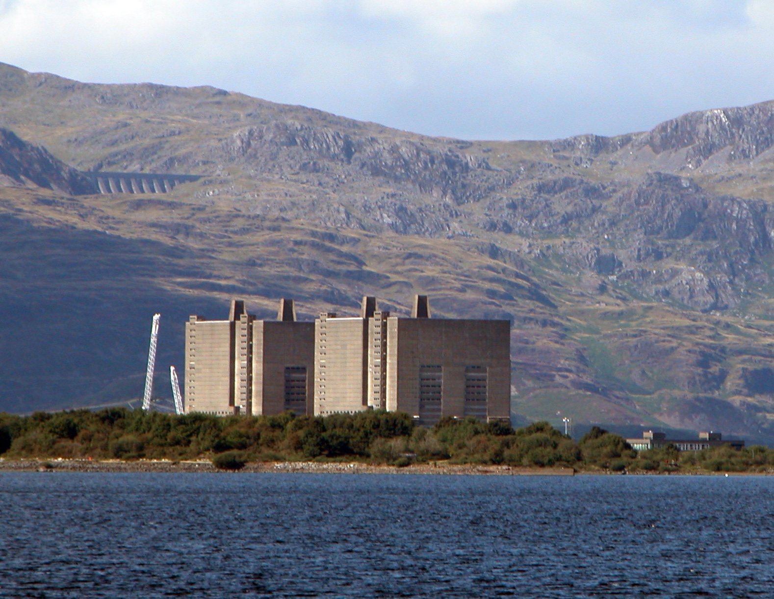 Trawsfynydd power station across the lake. By William M. Connolley, 2006/08. Category:Nuclear power stations in the United Kingdom